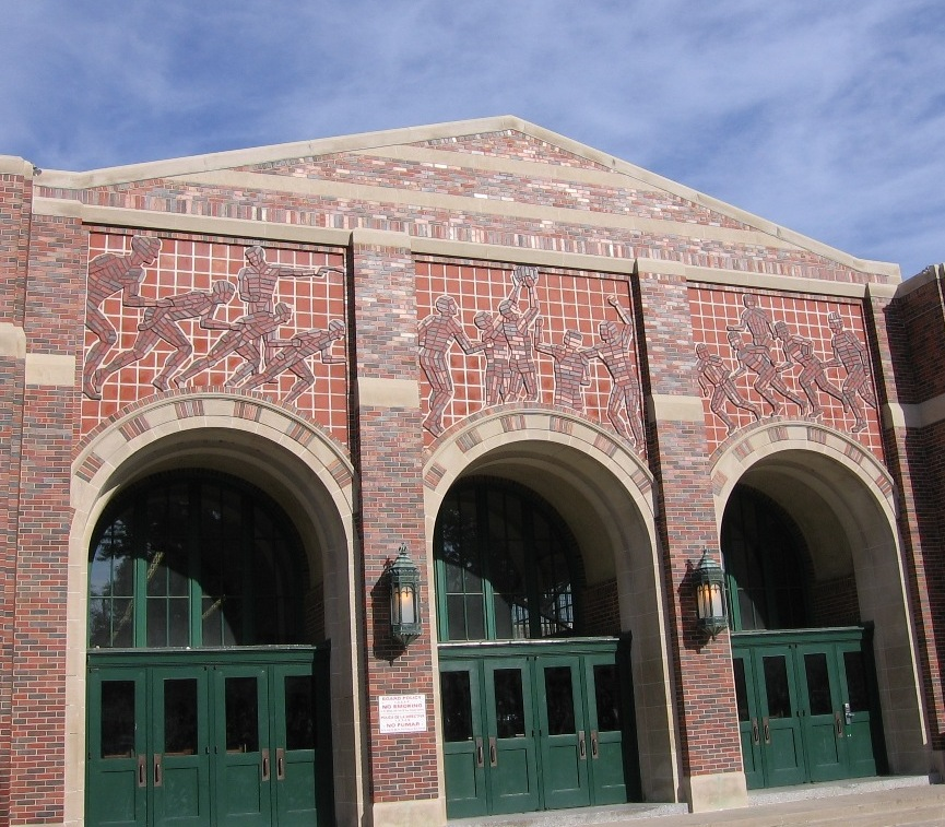 One of the entrances to Wyandotte High School, located at 2500 Minnesota Avenue in Kansas City, Kansas, United States. Built in 1936, the high school is listed on the National Register of Historic Places.